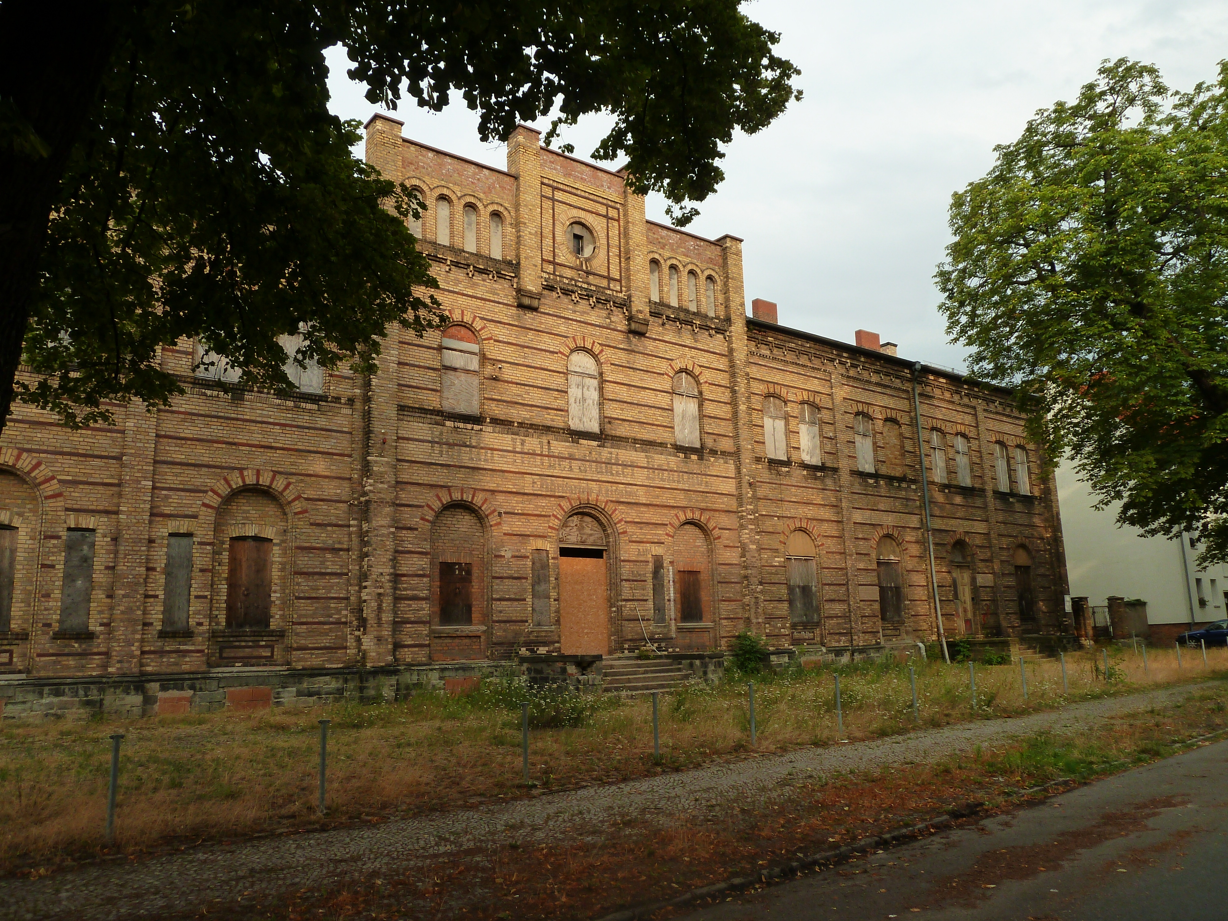 The Berlin-Halberstädter Bahnhof at the Georgstraße in Köthen (about 150m west from the recent Köthen station) was in use from about 1870/71 to 1917. The neogotic building is part of sequences of station buildings from different epoches wich is unique for Gernamy. View from west.